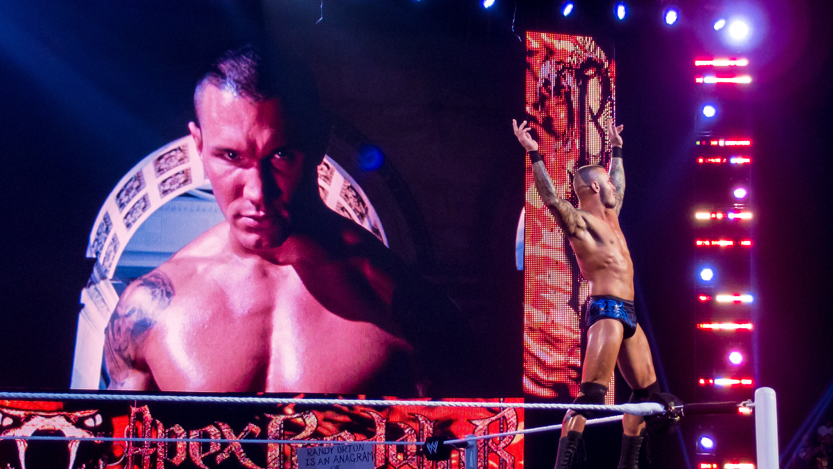 Randy Orton at Raw, Miami, 2 April 2012